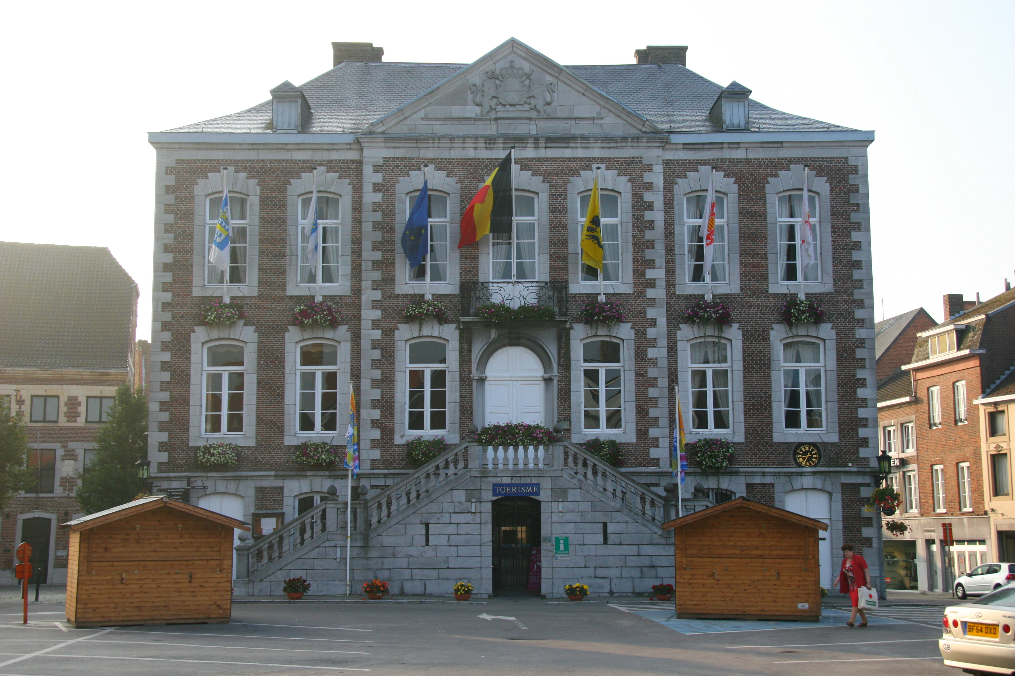 The city hall of Tongeren, Belgium